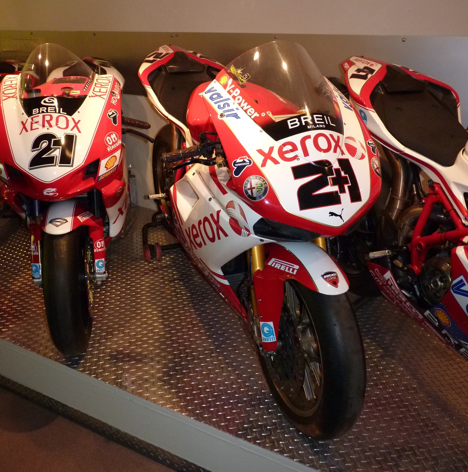 The Ducati 1098R on which Troy Bayliss won his third Superbike World driver's Championship (note the "plus" symbol between his signature race number, forming a 2+1) in 2008. The one on the left is an older bike also driven by Bayliss in SBK, a Ducati 999R.Bologna, Museo Ducati.